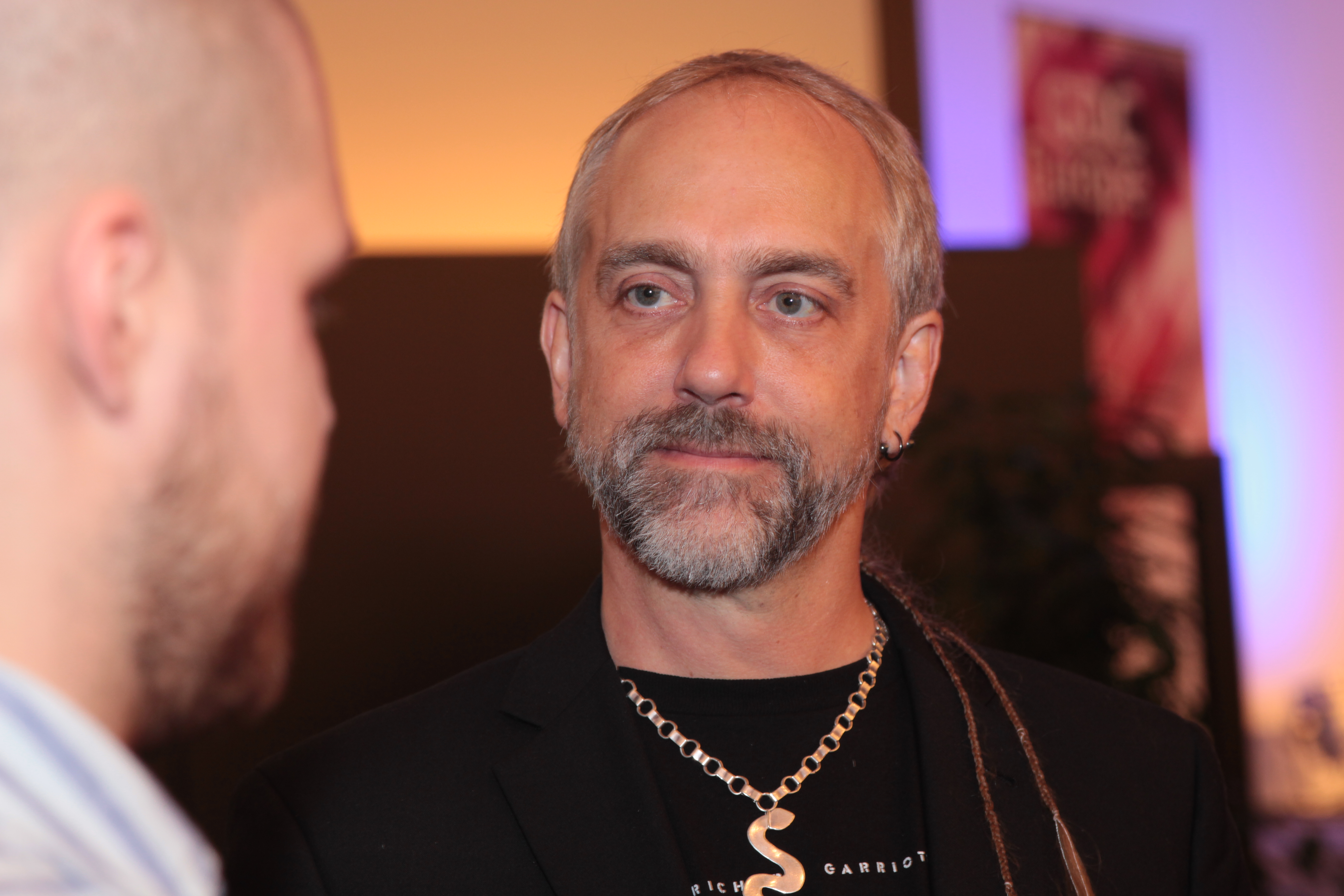 Richard Garriott at the Game Developers Conference Europe 2011